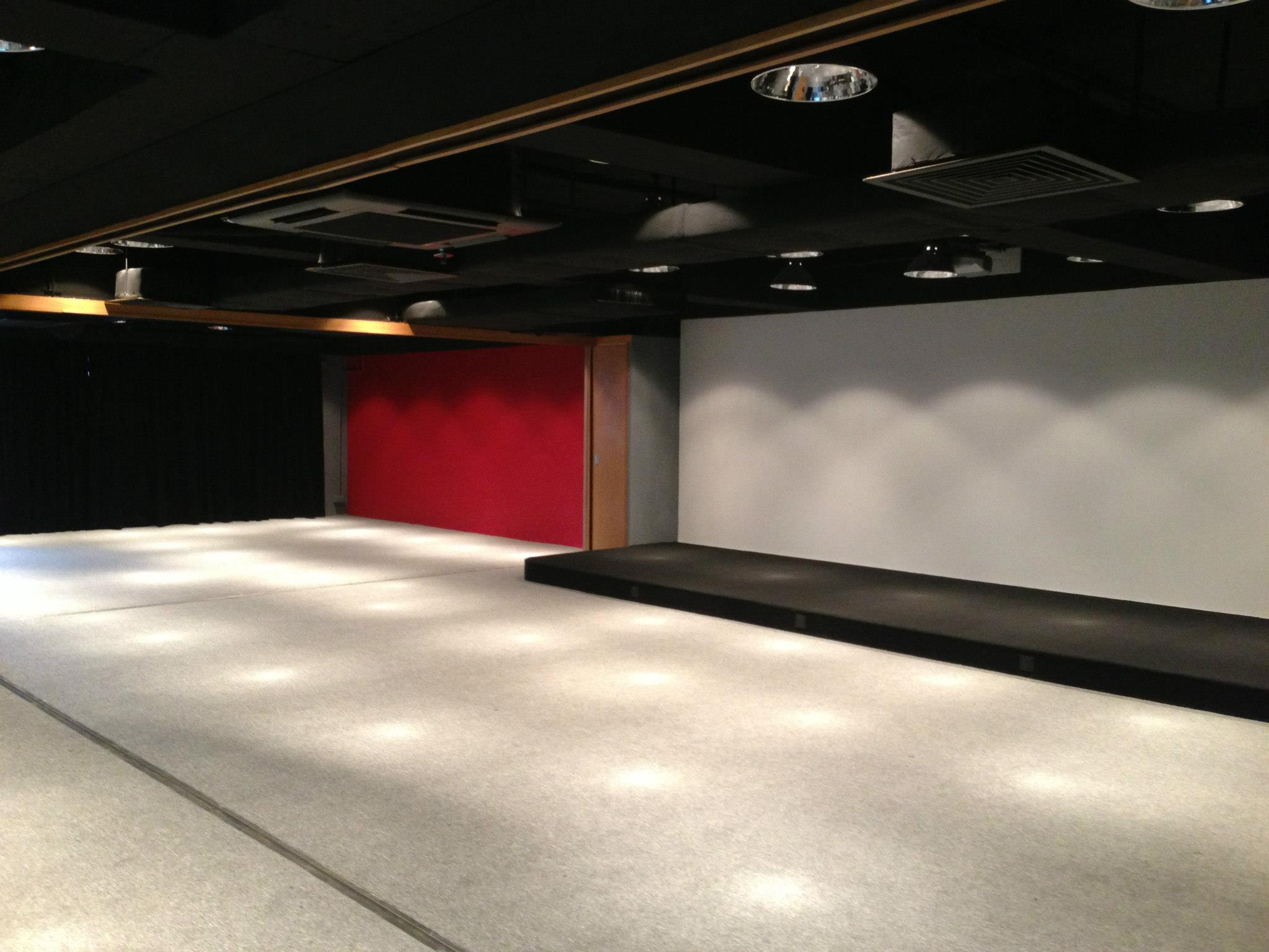 Part of the previous Lifehouse Hong Kong auditorium in Mong Kok